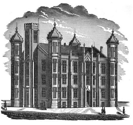 Sketch of the Central High School building at Olive and 15th Streets in St. Louis, Missouri (1855-1893)